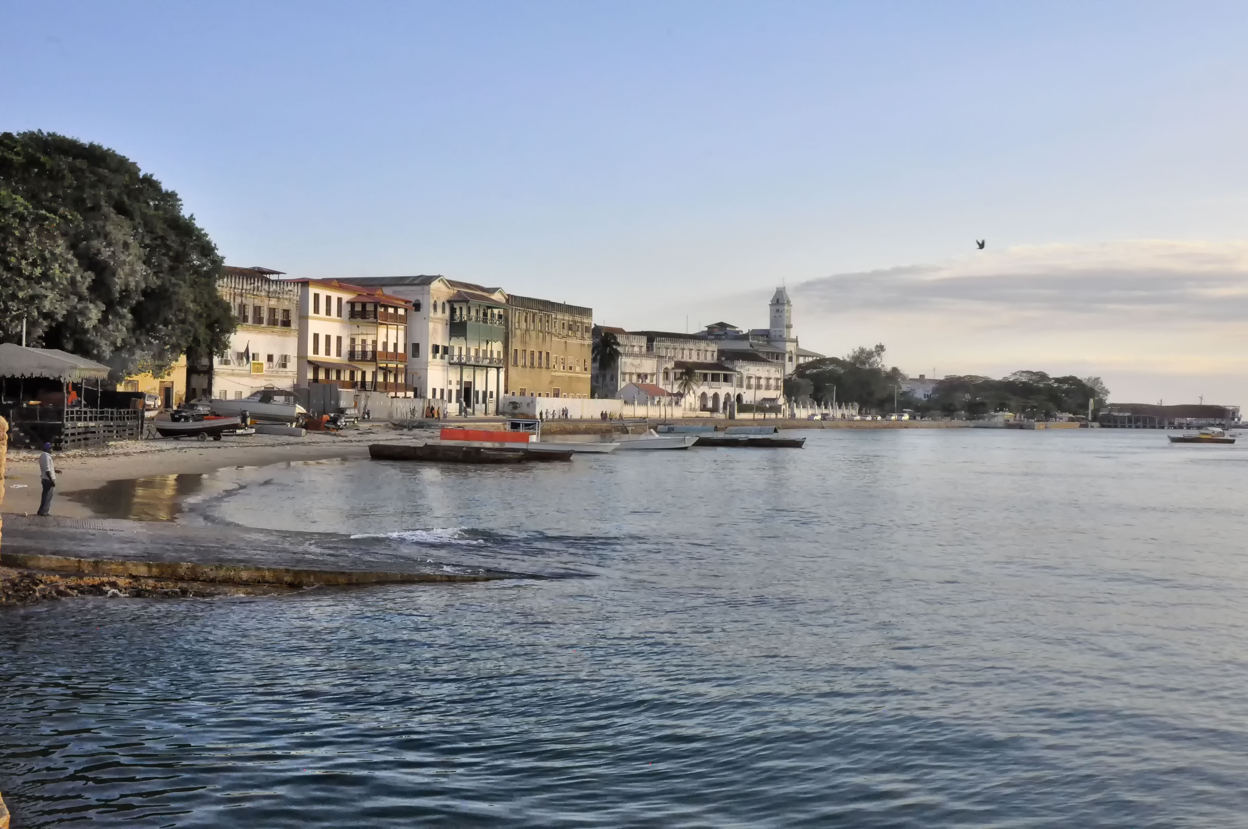 Stone Town Waterfront, Zanzibar